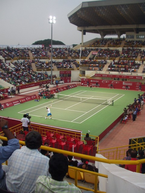 Chennai Tennis Open final, January 2005, photo by Matthew Mayer Original here [1]